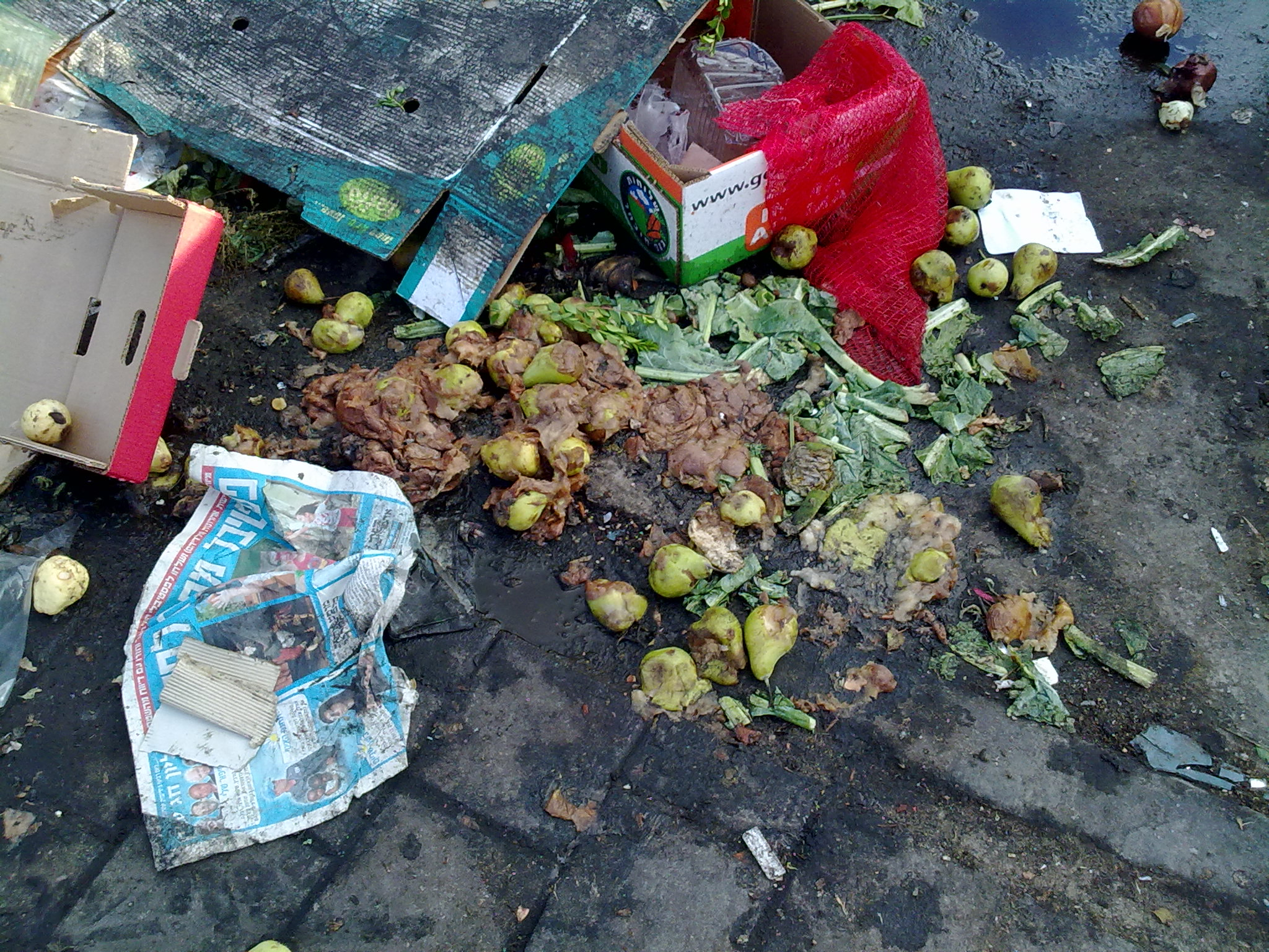 Waste in the Carmel Market, Tel Aviv, Israel